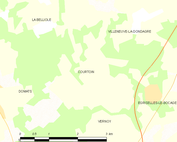 Map of French municipality Courtoin